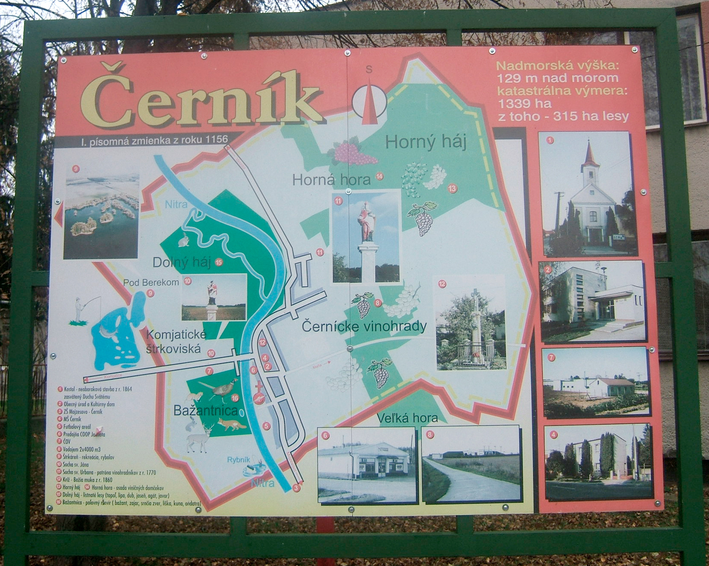 Village Černík. Map, 2009